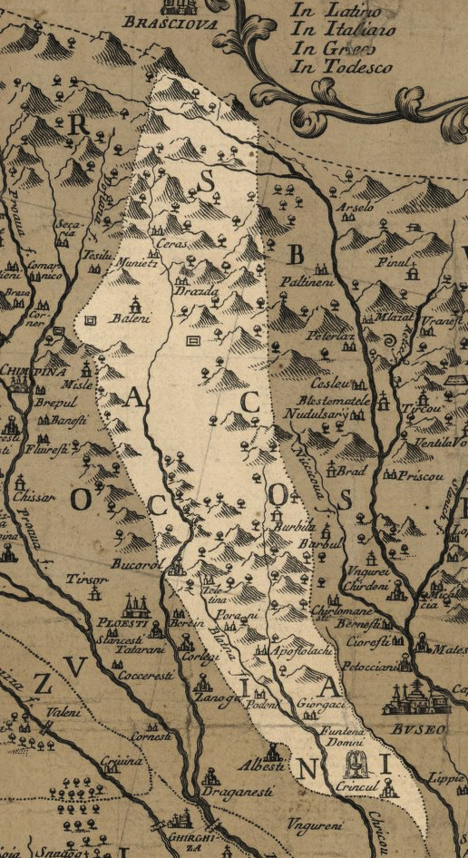 17th century map of Wallachia (nowadays, Southern Romania), by stolnic Constantin Cantacuzino; the detail with Săcueni County